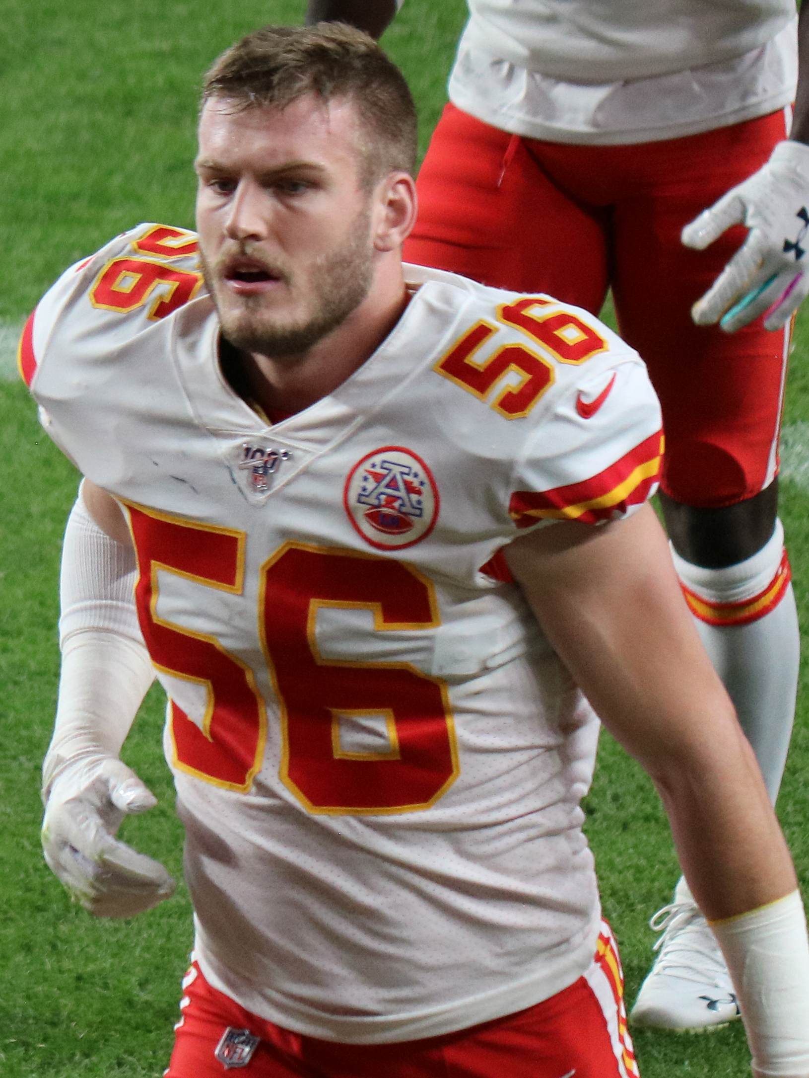 Ben Niemann, a National Football League player.